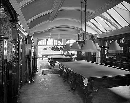 View at show room at Thurston's Hall (later Leicester Square Hall, demolished 1956)